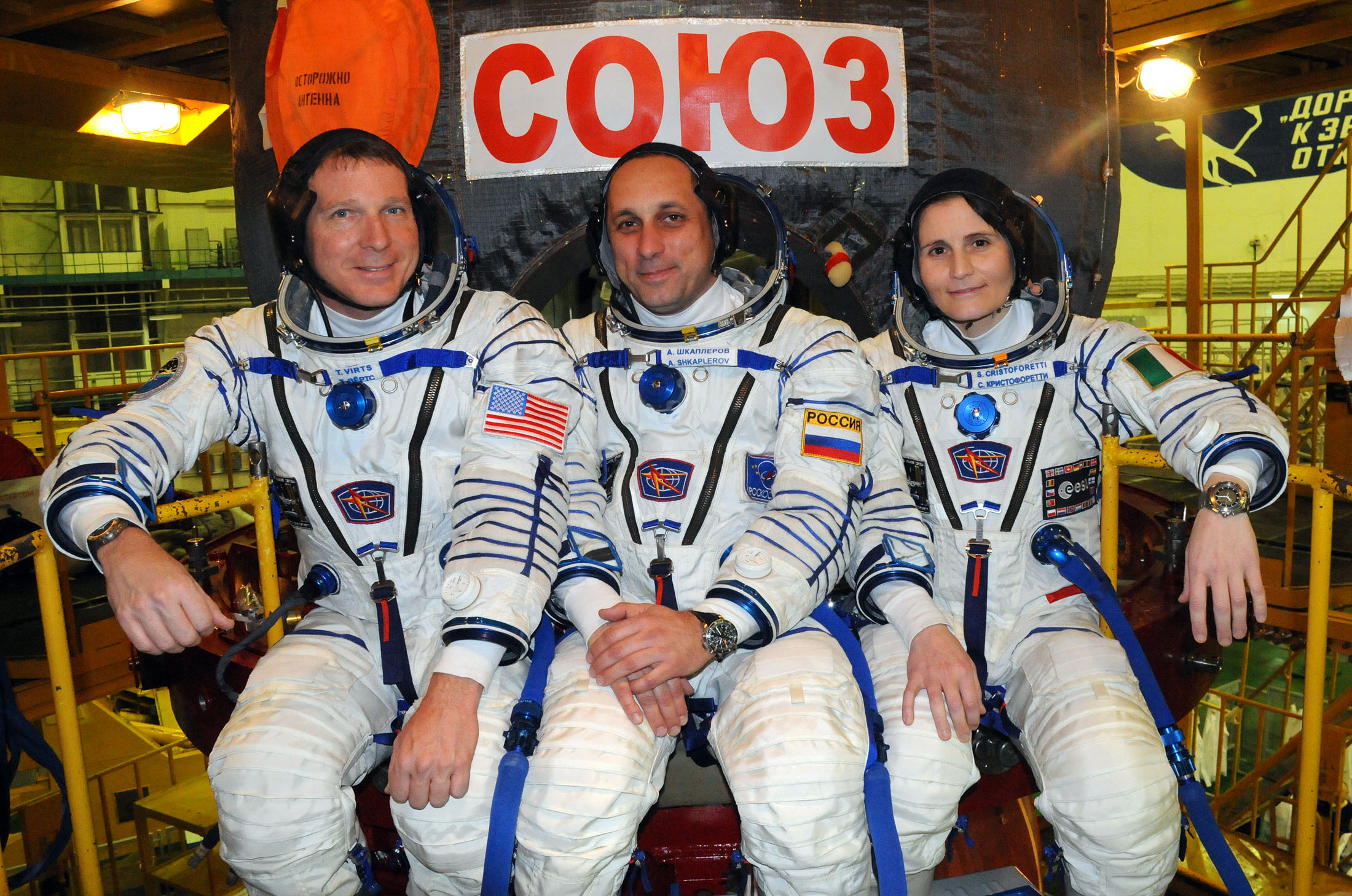 In the Integration Facility at the Baikonur Cosmodrome in Kazakhstan, Expedition 42/43 crewmembers Terry Virts of NASA (left), Anton Shkaplerov of the Russian Federal Space Agency (Roscosmos, center) and Samantha Cristoforetti of the European Space Agency (right) pose for pictures Nov. 12 in front of their Soyuz TMA-15M spacecraft during a "fit check" dress rehearsal. The trio will launch Nov. 24, Kazakh time, from Baikonur for a 5 ½ month mission on the International Space Station.